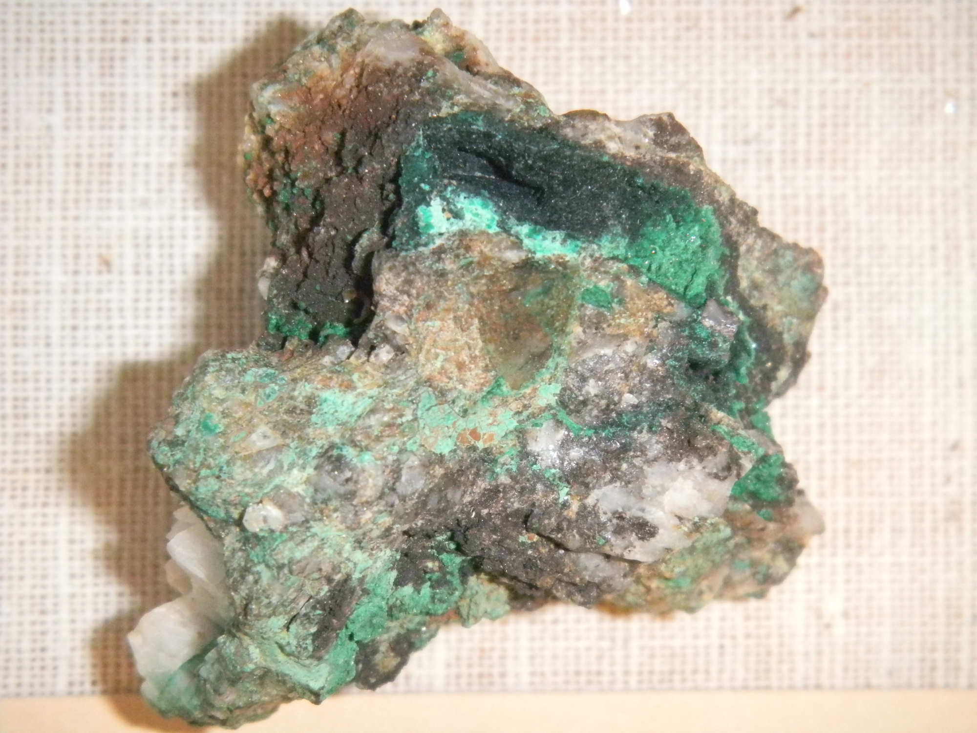 Small green crystals of the mineral lipscombite on quartz from Valmy, Humboldt County, Nevada, on display in the Phosphates display case in the Harvard Mineralogical Museum at the Harvard Museum of Natural History, gift of William N. Lipscomb, Jr. 1996. Mineral named after William N. Lipscomb, Jr. Width 35 mm., height 35 mm., depth (not visible) 30 mm. Approximate outside dimensions of irregularly-shaped sample. This sample is located at the Harvard Museum of Natural History, gift of W. N. Lipscomb, Jr. 1996